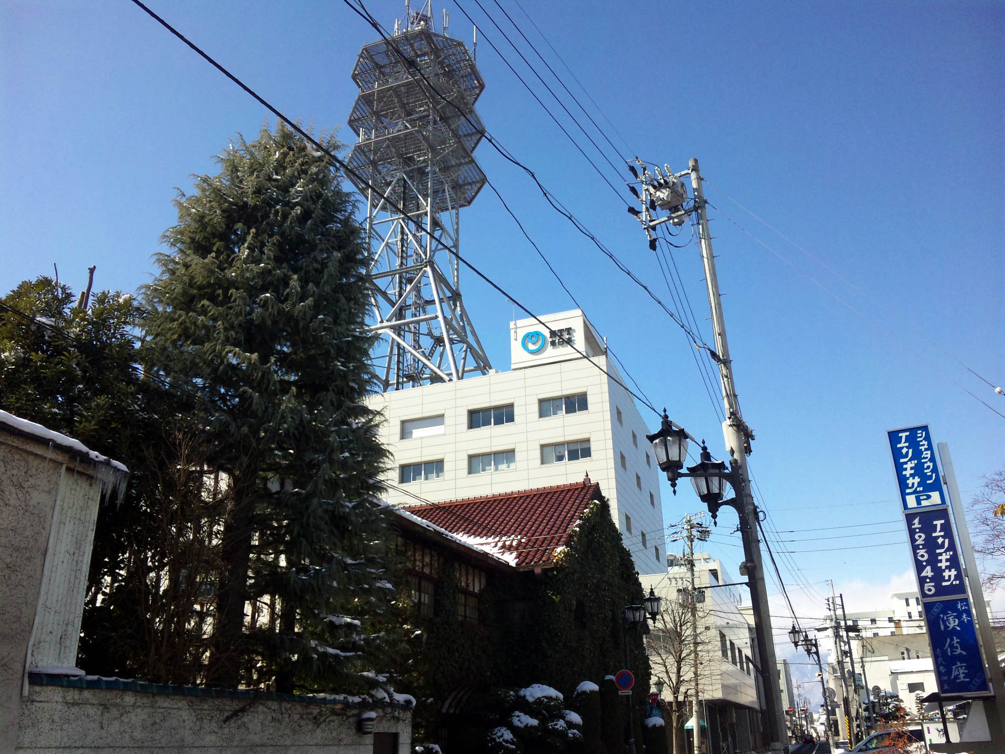 NTT EAST MATSUMOTO